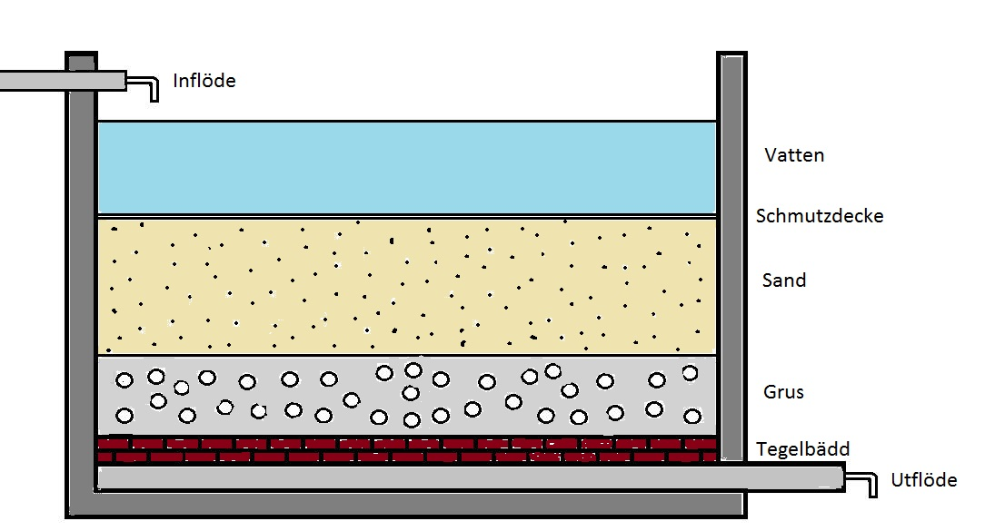 Schematic picture of a slow sand filter